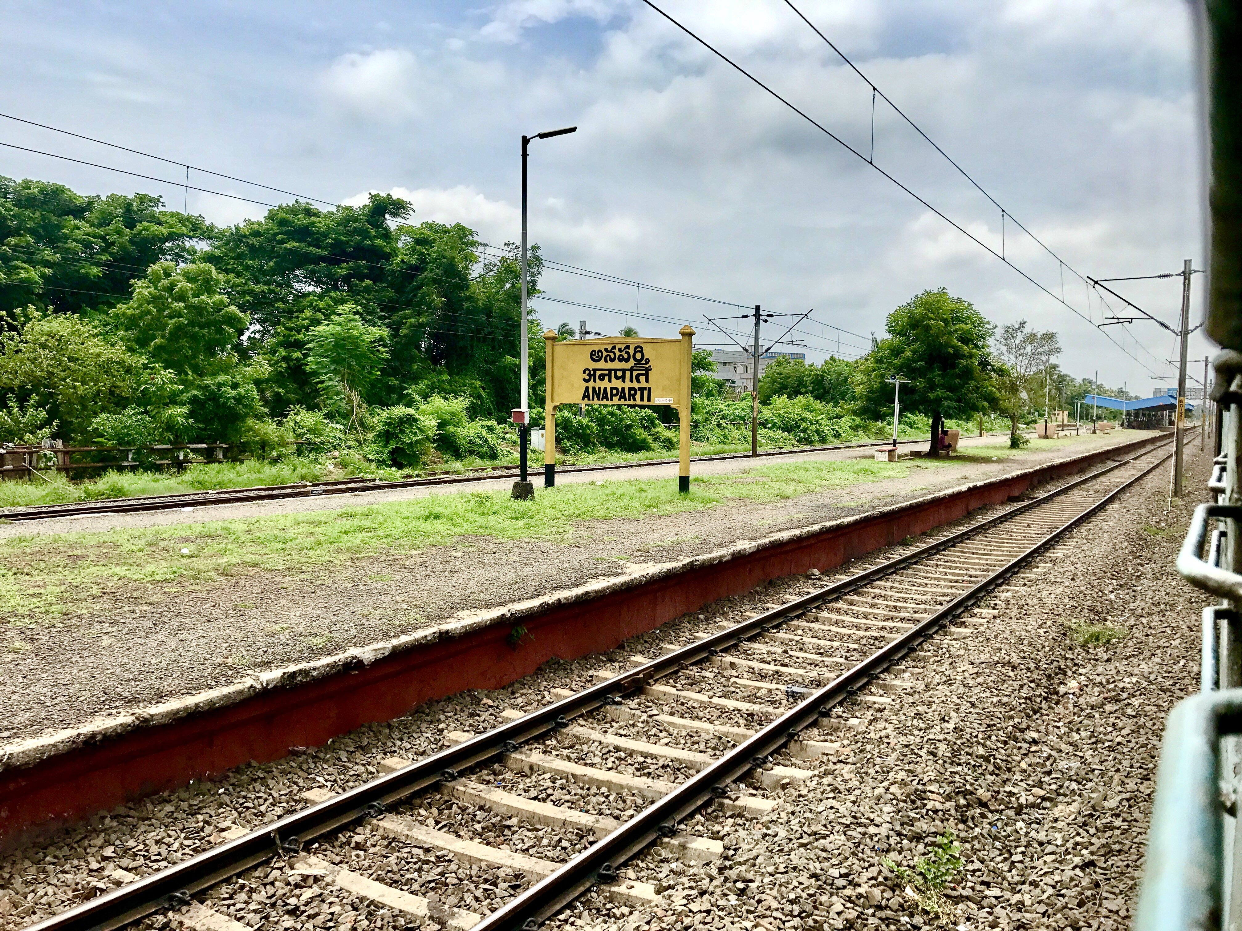 Anaparti railway station board